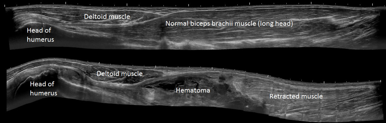 Panoramic ultrasonography of a biceps tendon rupture in a 53 year old man who had been woodcutting. Upper image is a normal (left) upper arm, and lower is the afflicted arm.